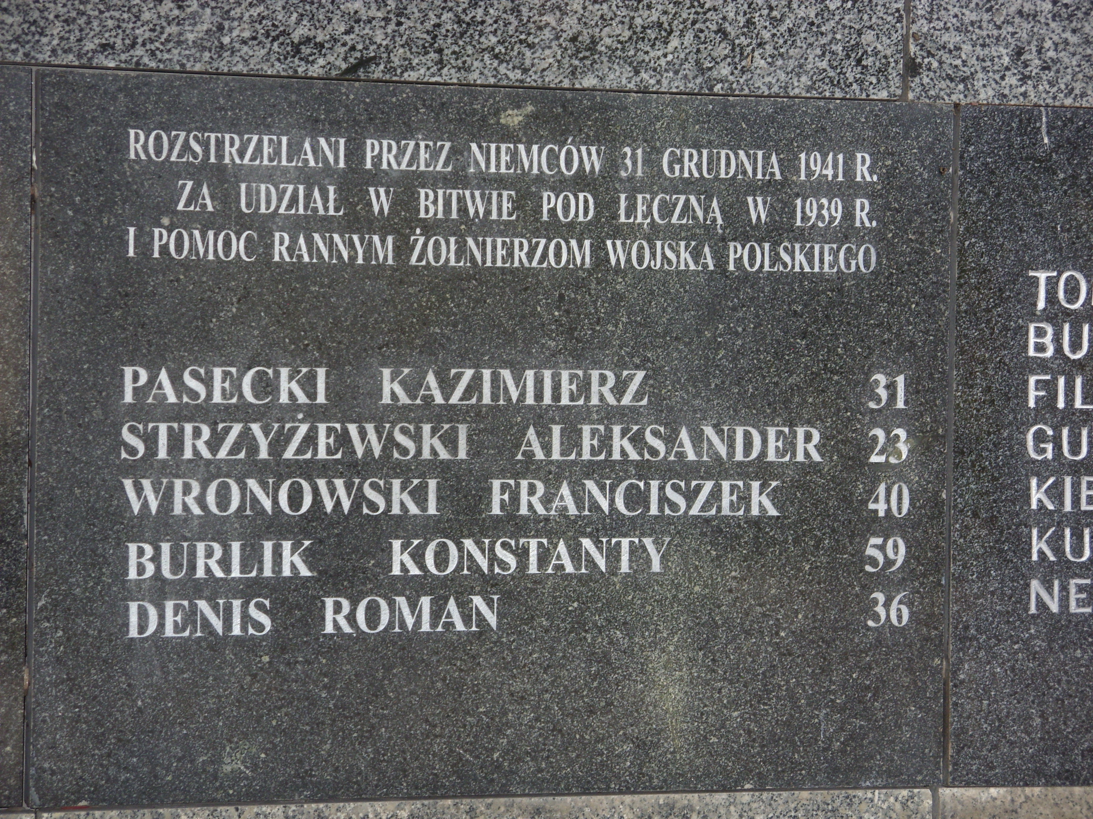 Monument to the victims of the executions in the Rury Jezuickie in Lublin and the collective grave of the victims of German crimes against Poles during the Second World War and German occupation in Poland in 1939-1945. German AB-Aktion in Poland. (German: Außerordentliche Befriedungsaktion